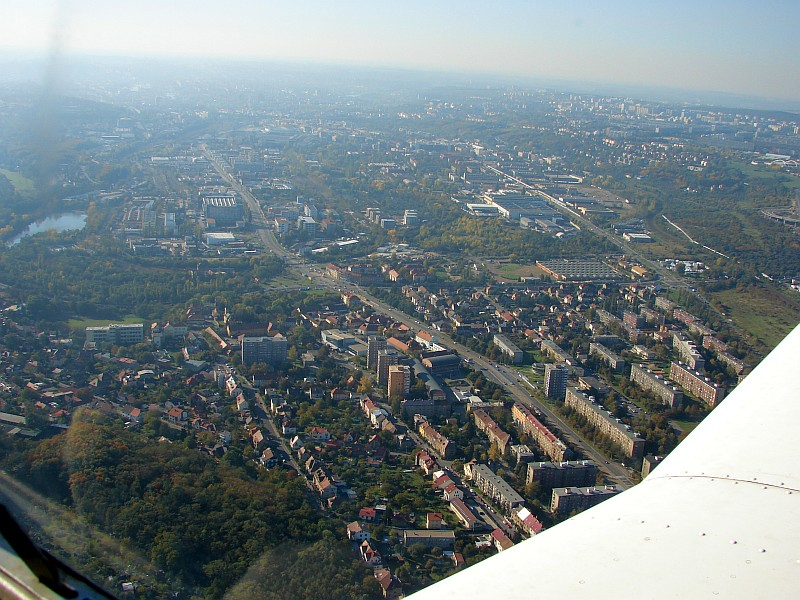 Aerial view of Hloubětín Česky: Letecký pohled na Hloubětín od východu